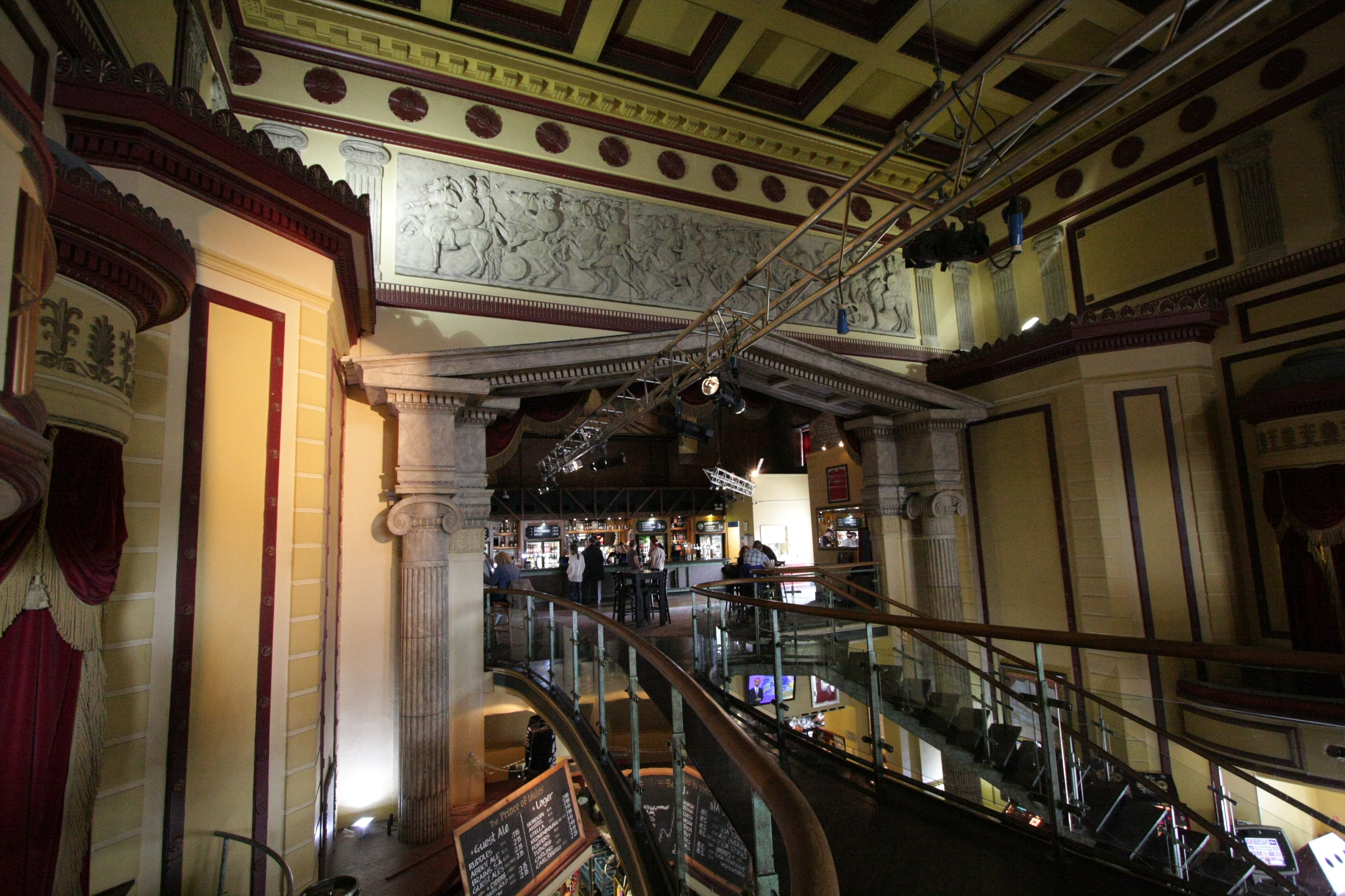 Proscenium arch of Prince of Wales Theatre, Cardiff. Now a pub.